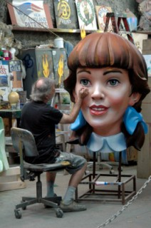 Taken on a visit to Mardi Gras World in New Orleans. This is where they make the floats for the Mardi Gras. Photo taken in 2005 float will be in 2006 parade